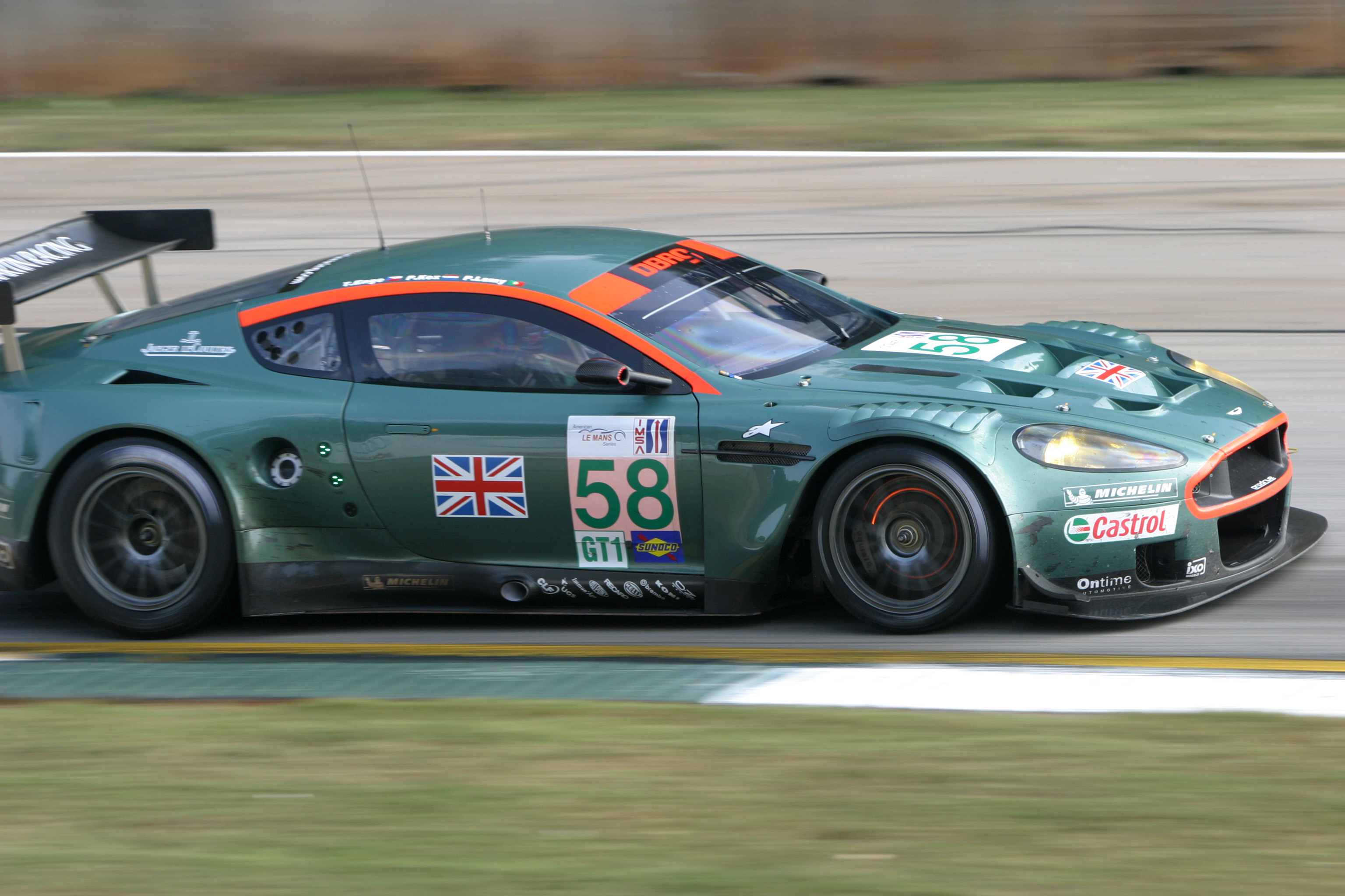 № 58 Aston Martin DBR9 - GT1 Aston Martin Racing Road Atlanta Petit Le Mans October 1, 2005 Round 9 American Le Mans Series Peter Kox, Tomas Enge and Pedro Lamy (359 laps) - 5th Place